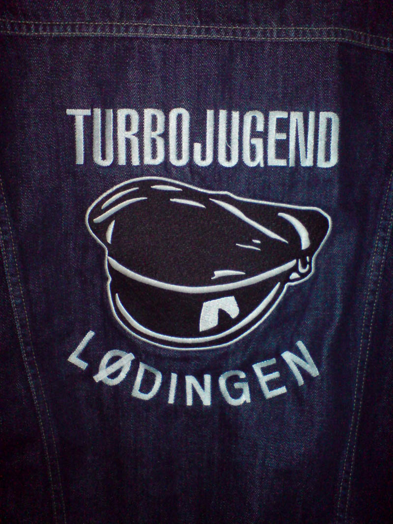 A Turbojugend Jacket or "kutte"